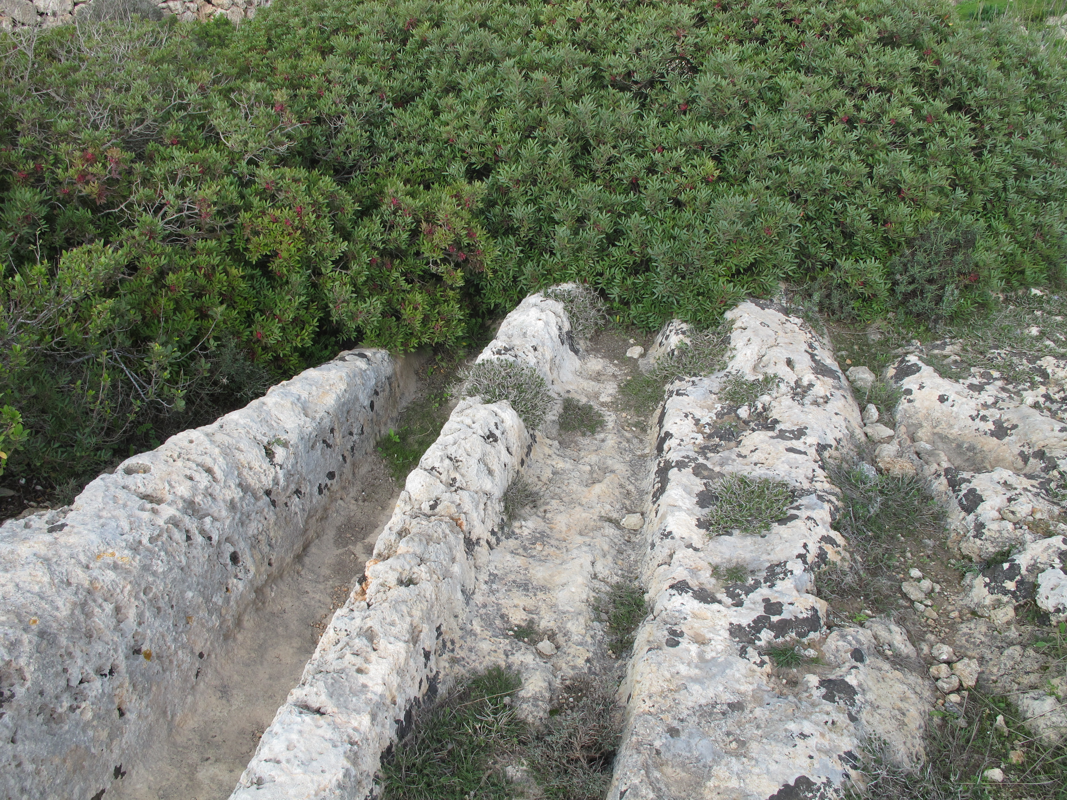 The so called "cart ruts" in the area of Għar il-Kbir